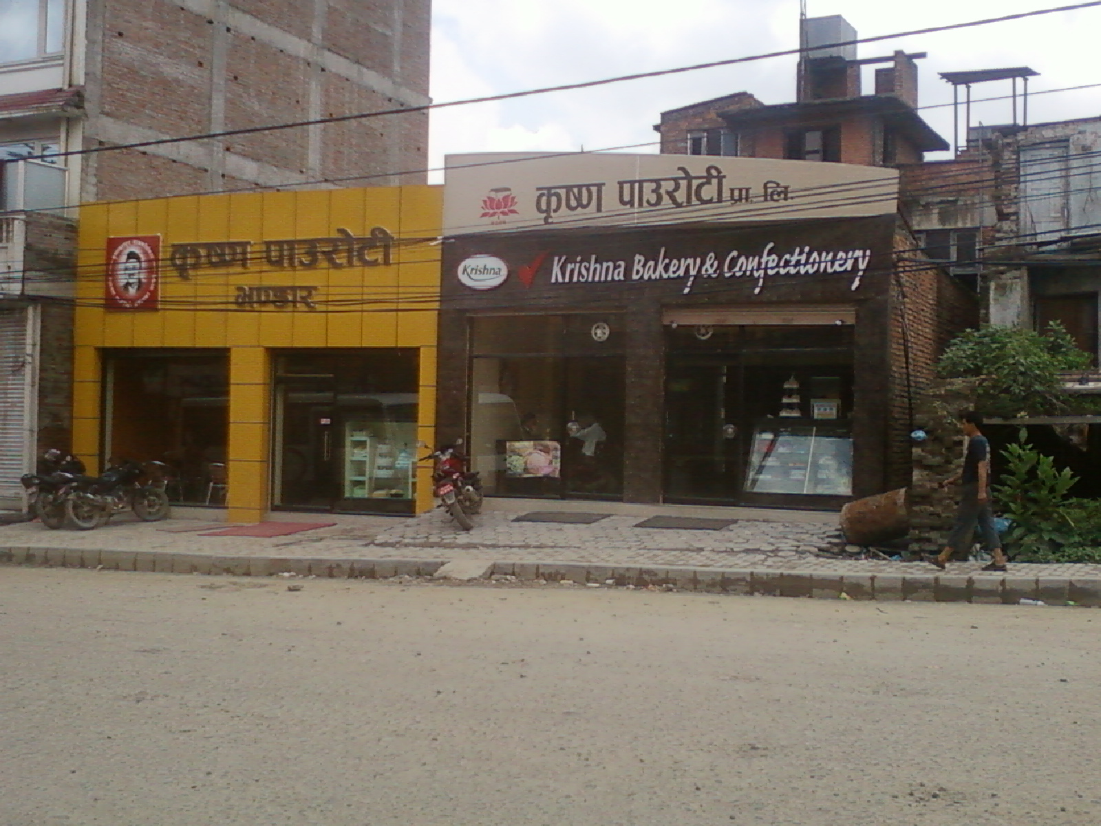 Krishna pauroti